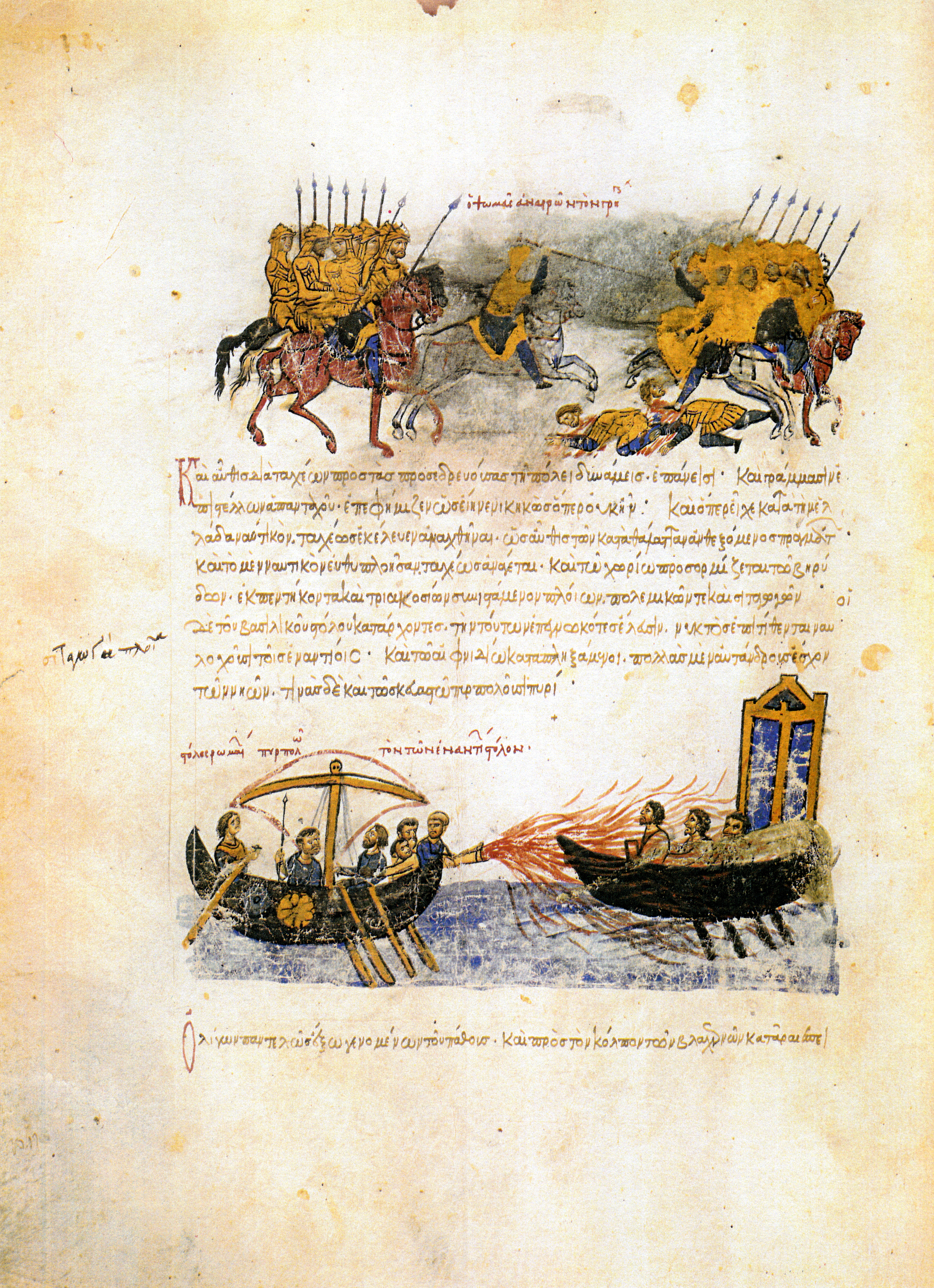 Skyllitzes Matritensis, fol. 34v.